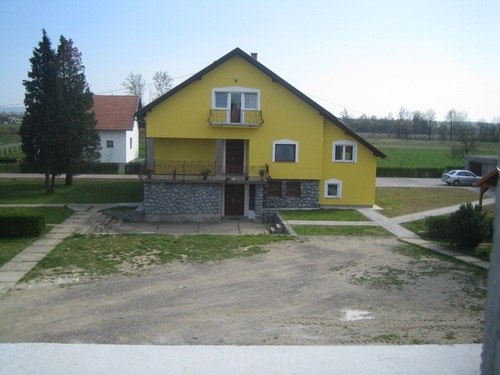 ( Kolibe Arhiva, Private Archive)